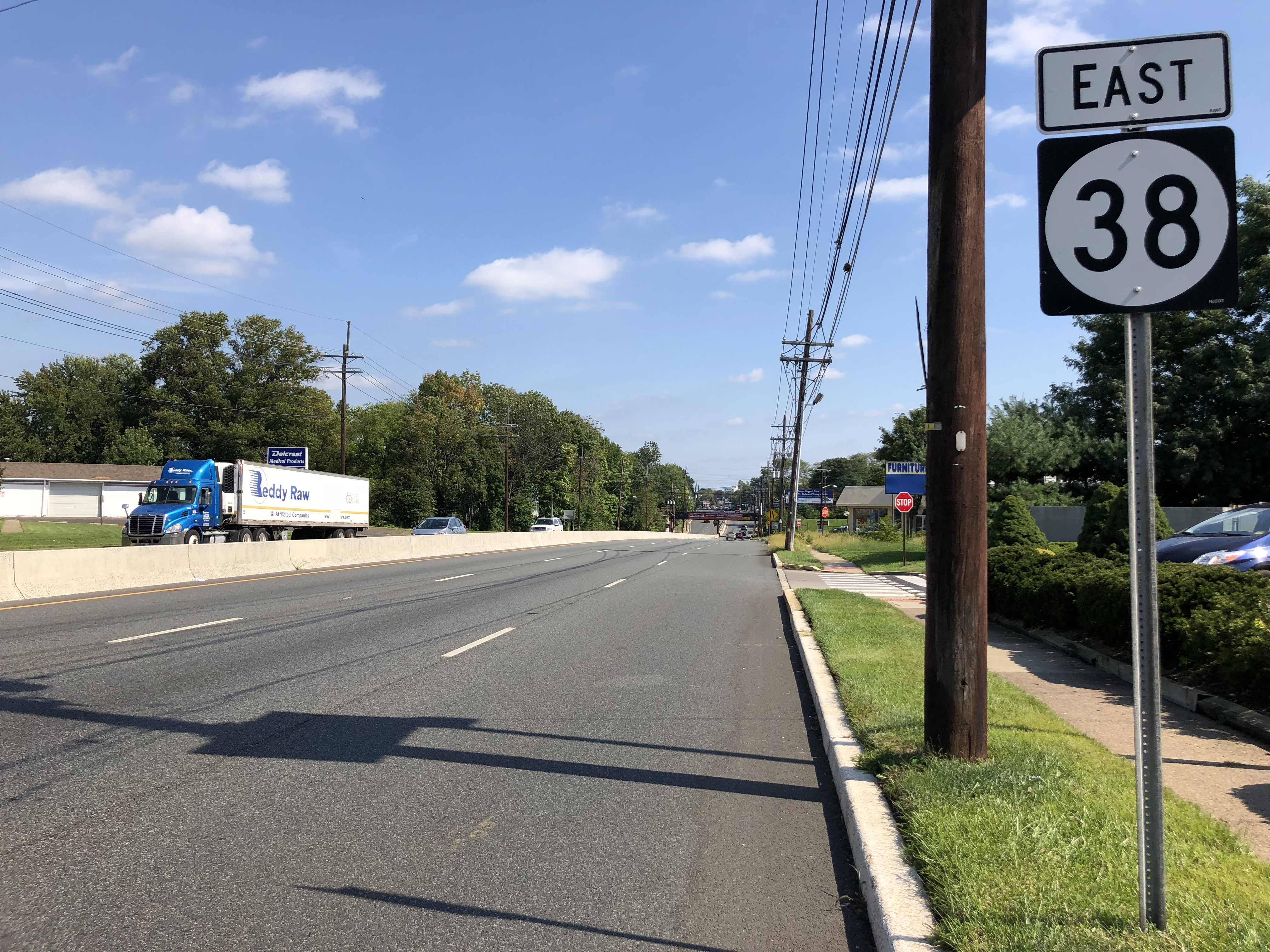 View east along New Jersey State Route 38 (Kaighn Avenue) at Longwood Avenue in Cherry Hill Township, Camden County, New Jersey